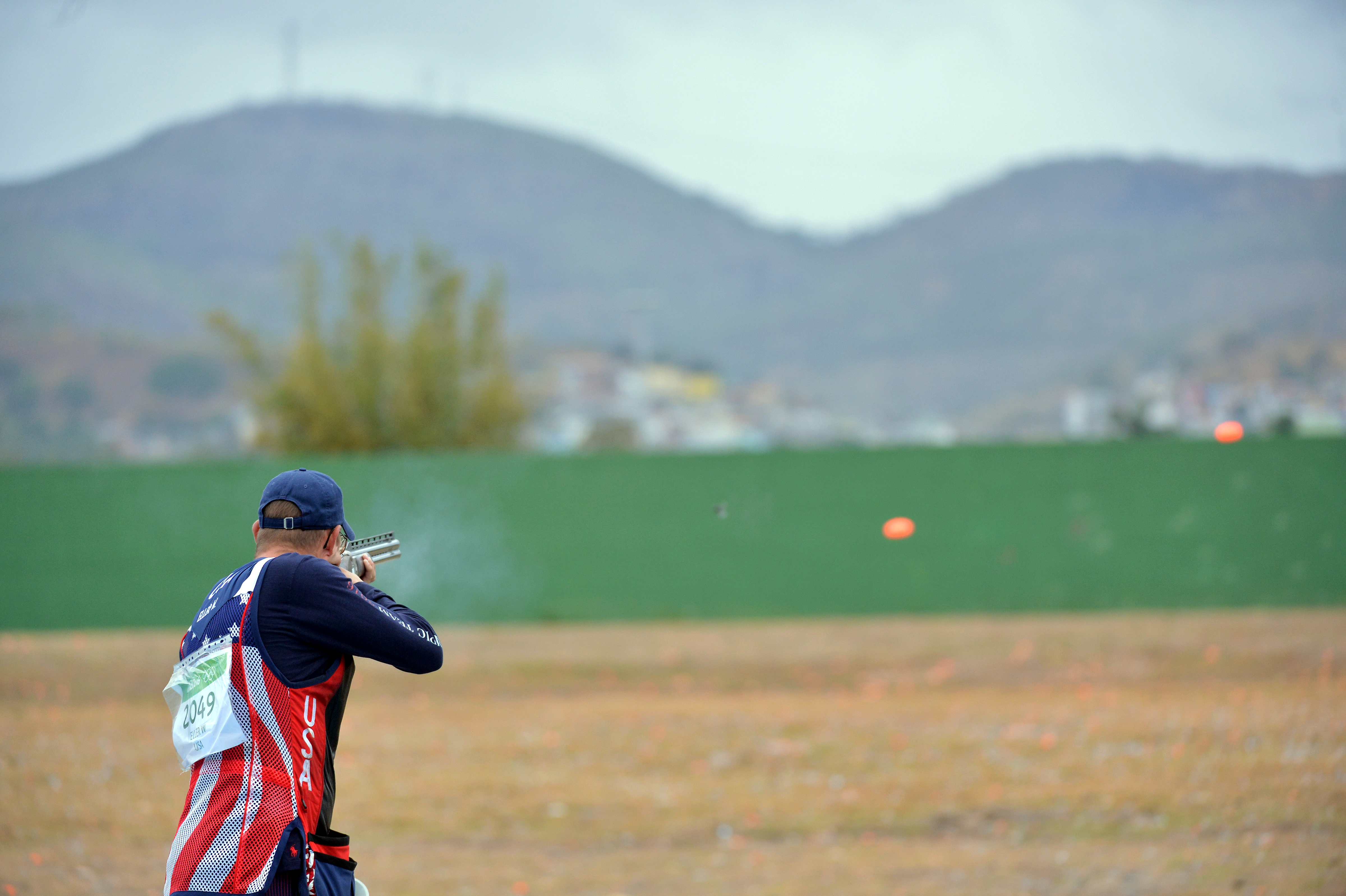 Five-time Olympian Sgt. 1st Class Glenn Eller, the Beijing 2008 Olympic champion, finished 14th in qualifying with a score of 131 in the men's double trap shotgun shooting event Aug. 10 at the 2016 Rio Olympic Games in Rio de Janeiro. U.S. Army photo by Tim Hipps, IMCOM Public Affairs